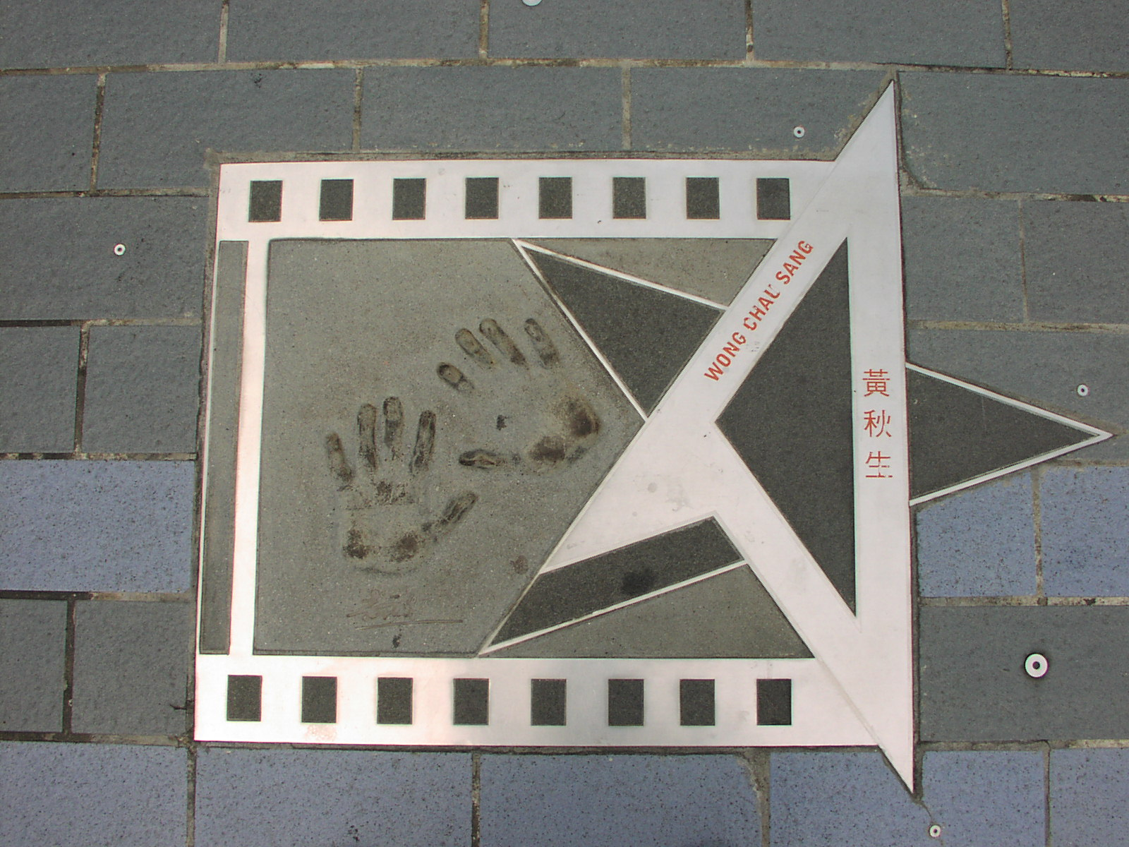 Avenue of Stars, Hong Kong